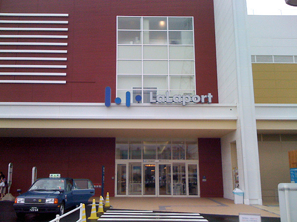 "LaLaport IWATA", Shopping Mall in Iwata, Shizuoka